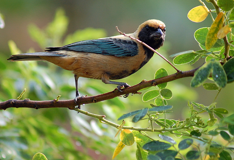 Tangara cayana, Piraju, São Paulo, Brazil